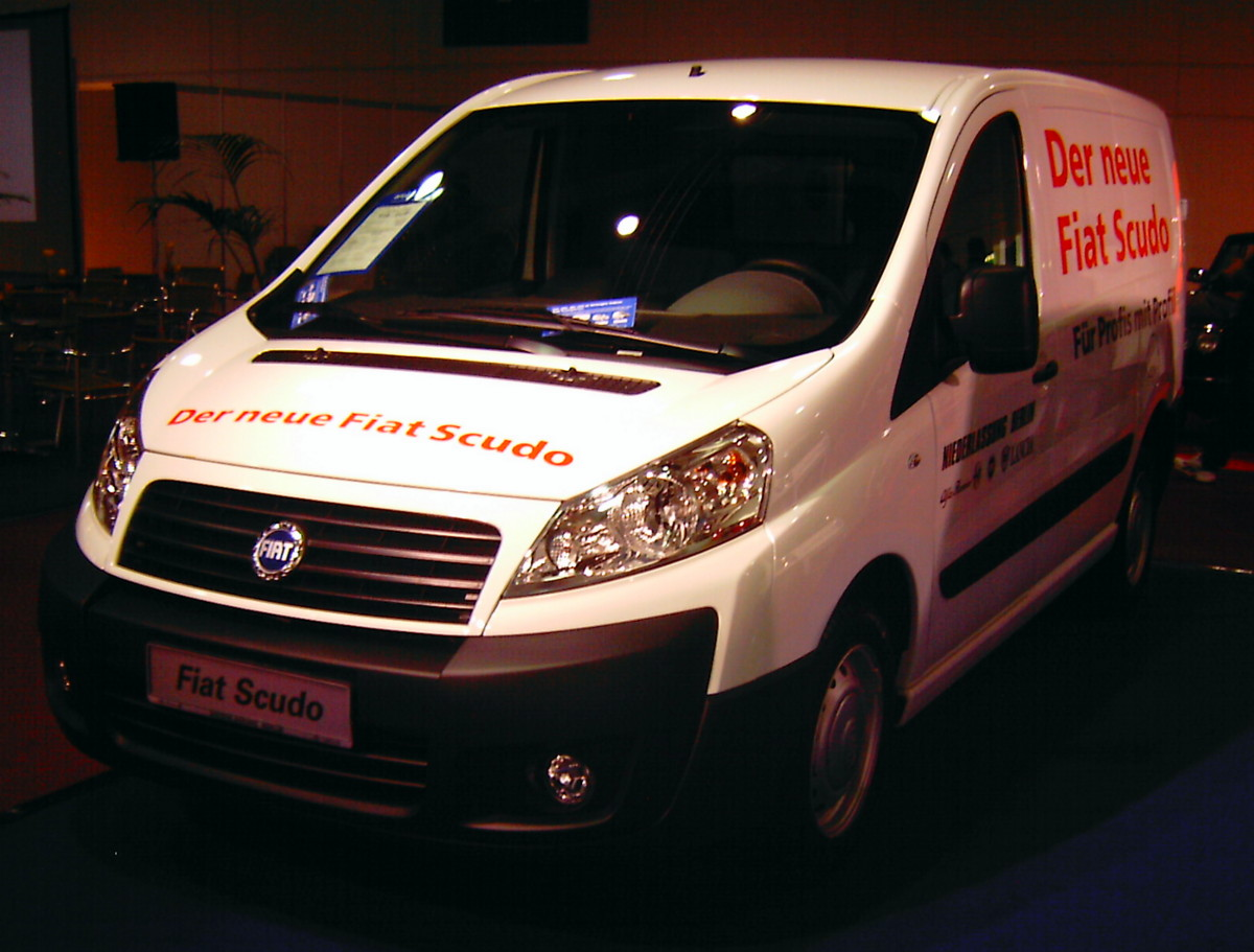 2007 Fiat Scudo on Motorwelt 2007